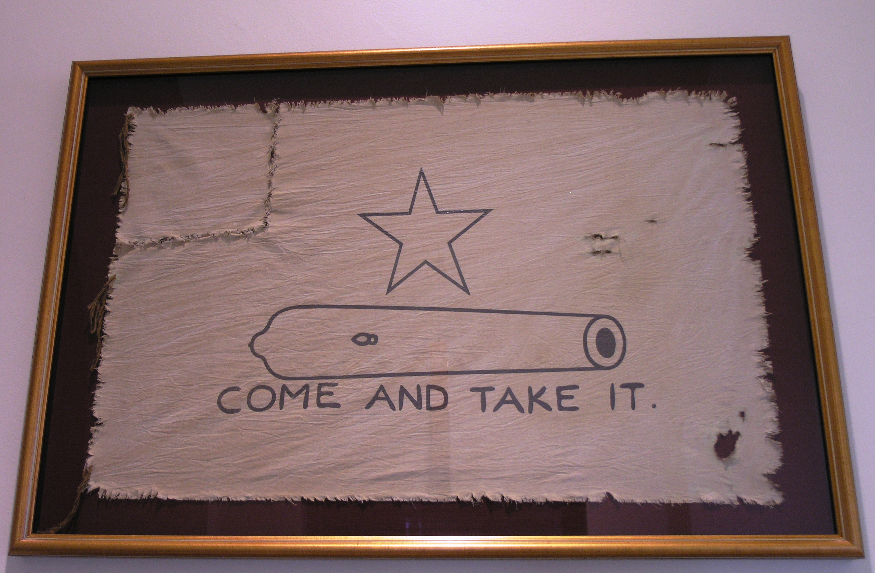 Gonzales Flag - The text says "Come and Take it!"